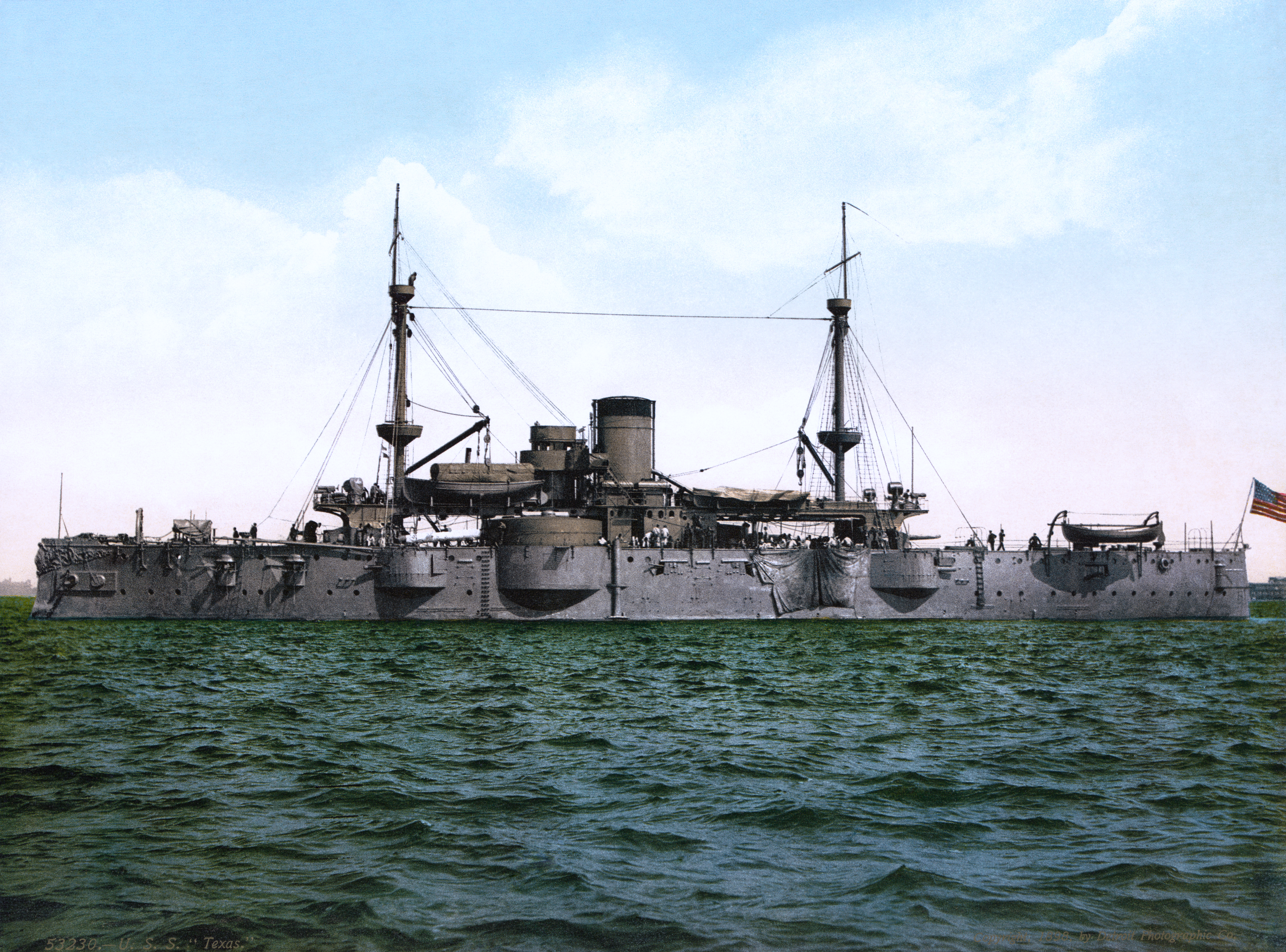 USS Texas in 1898 (commissioned 1892) Detroit Publishing Co. no. "53230"